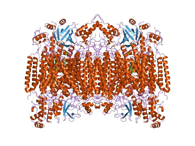 Cartoon representation of the molecular structure of protein registered with 1oco code.